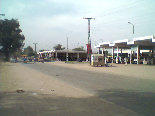 Bus Stand Jhelum